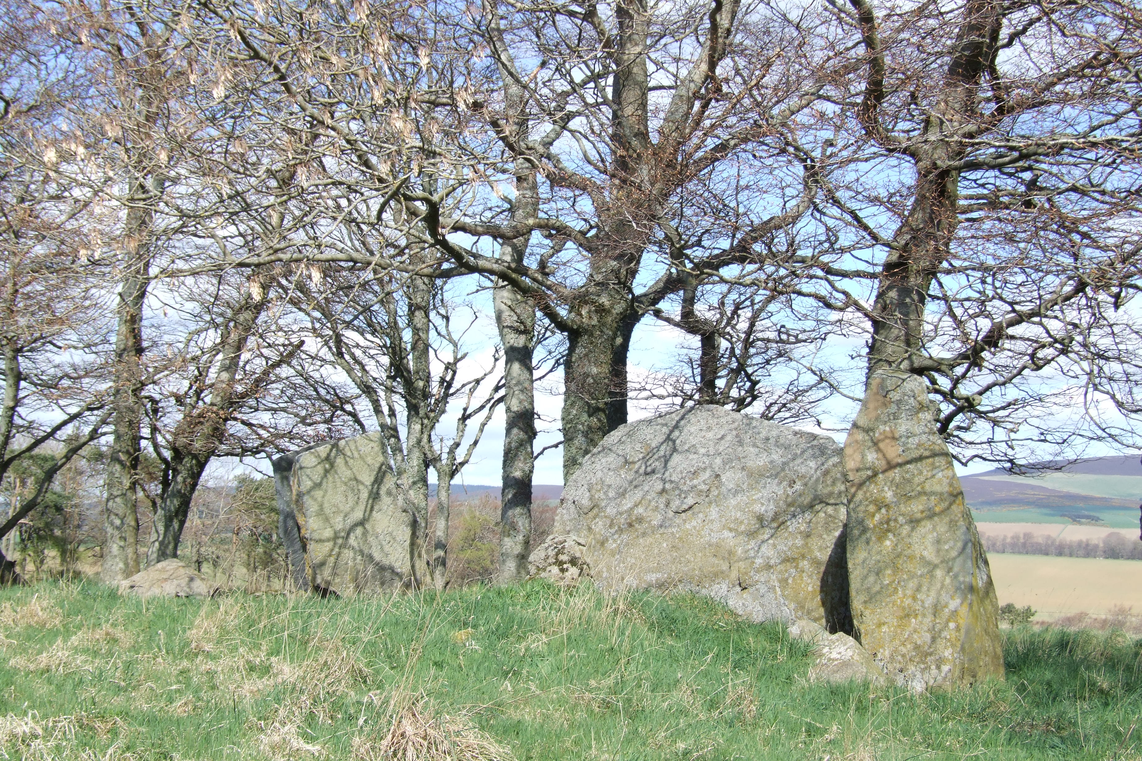 Photograph by myself of the Recumbent Stone and its Flankers remaining at the Dunnideer circle near Insch, Aberdeenshire.